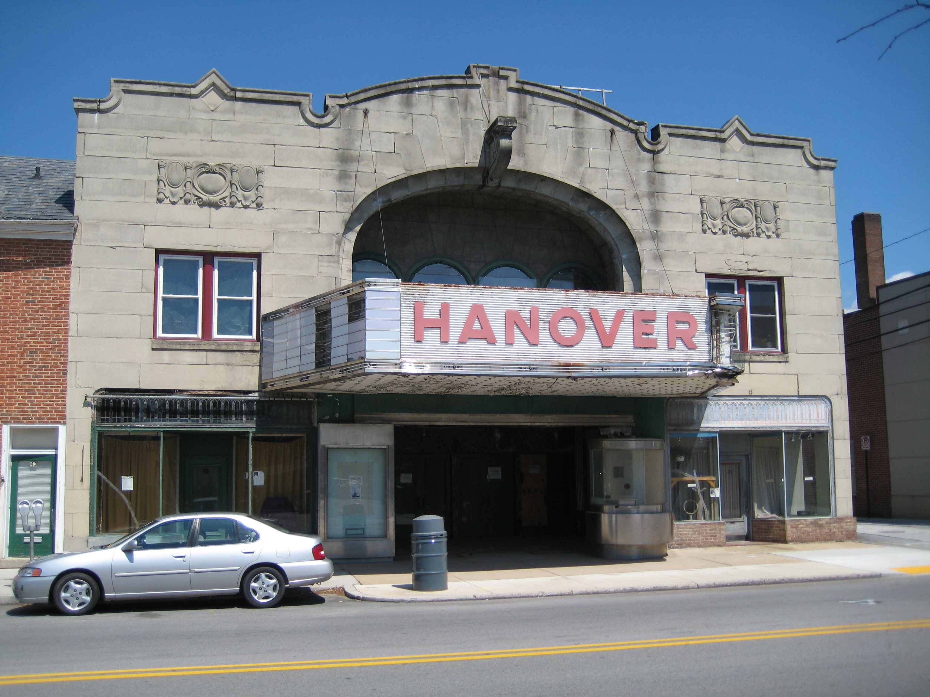 According to a sign on the door, this building has seen many uses over the years, but is now vacant and awaiting restoration by a theater group. Good to see that it hasn't been altered much.